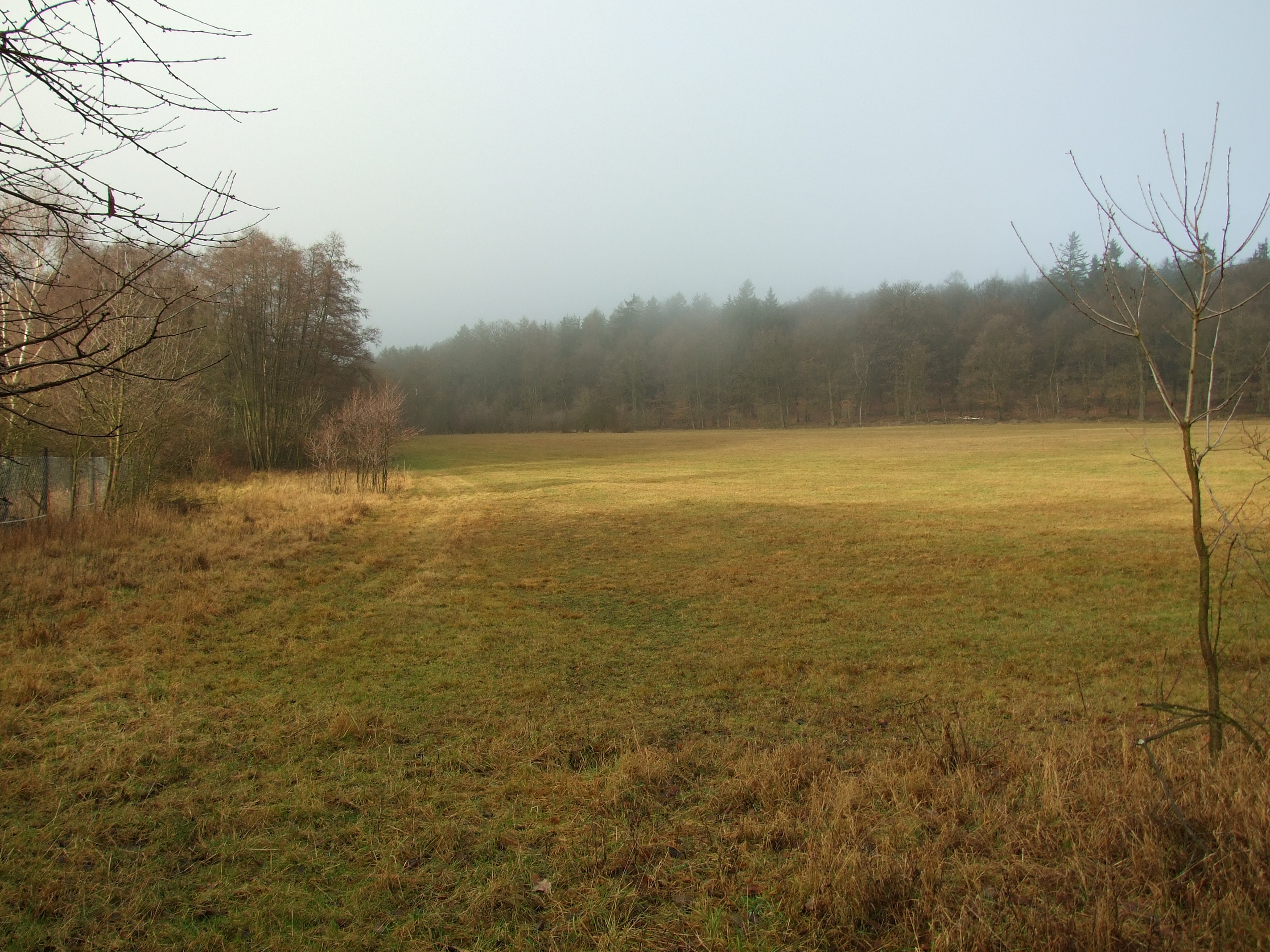 Libeň preserve near Nové Strašecí, Central Bohemian Region, CZhelp